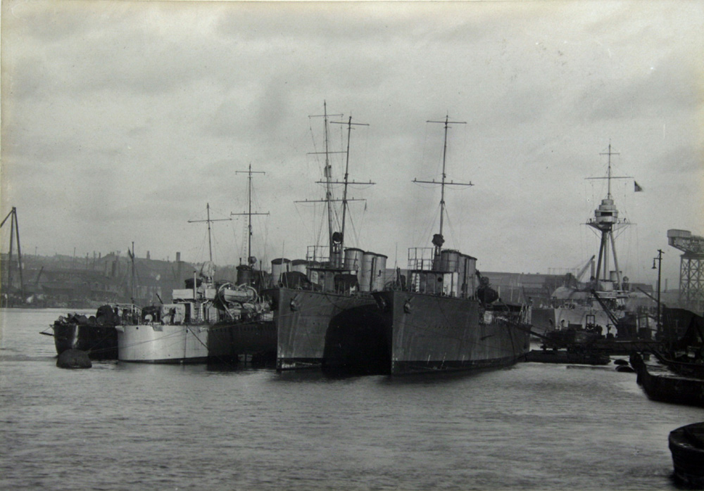 HMS Marksman, HMS Talisman and HMS Termagant moored at the Hawthorn Leslie shipyard, Hebburn, 5 November 1915 (TWAM ref. 4471/3). HMS Termagant took part in the Battle of Jutland with the Royal Navy's 13th Destroyer Flotilla. The shipyard of R. & W. Hawthorn Leslie at Hebburn built many fine warships. During the First World War the firm built 2 light cruisers, 3 destroyer leaders and 25 torpedo boat destroyers. The firm also built machinery and boilers for 2 battleships, and a further 3 light cruisers. These and other warships built by Hawthorn Leslie before the War, are remembered in this set. There are remarkable images of warships under construction at Hebburn, as well as fascinating shots of the people who attended the launches. The set also contains majestic views of the ships at sea. The images are not only a testimony to the skill of those who designed and built these ships but also to the courage of those who sailed in them. (Copyright) We're happy for you to share these digital images within the spirit of The Commons. Please cite 'Tyne & Wear Archives & Museums' when reusing. Certain restrictions on high quality reproductions and commercial use of the original physical version apply though; if you're unsure please